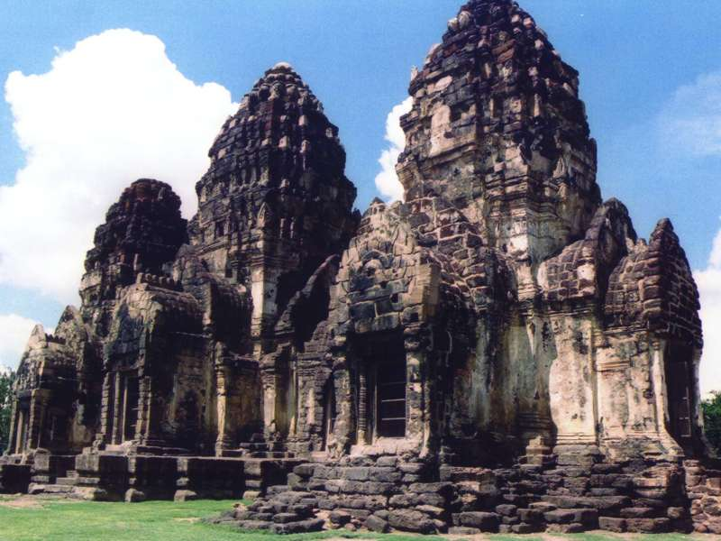 Prang Sam Yot in Lopburi, Thailand Photo taken by User:Ahoerstemeier on 2003-07-14.